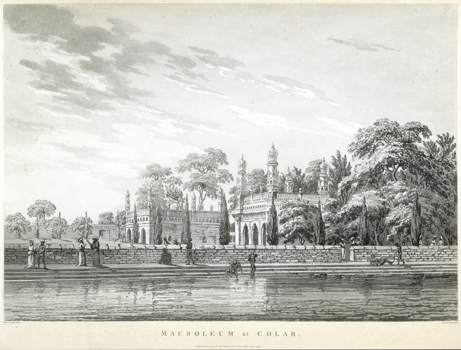 Aquatint (uncolored) by Alexander Allan, 1794, and included in his 'Views in the Mysore Country'. It depicts the mausoleum of Haidar Ali's ancestors, including his father.